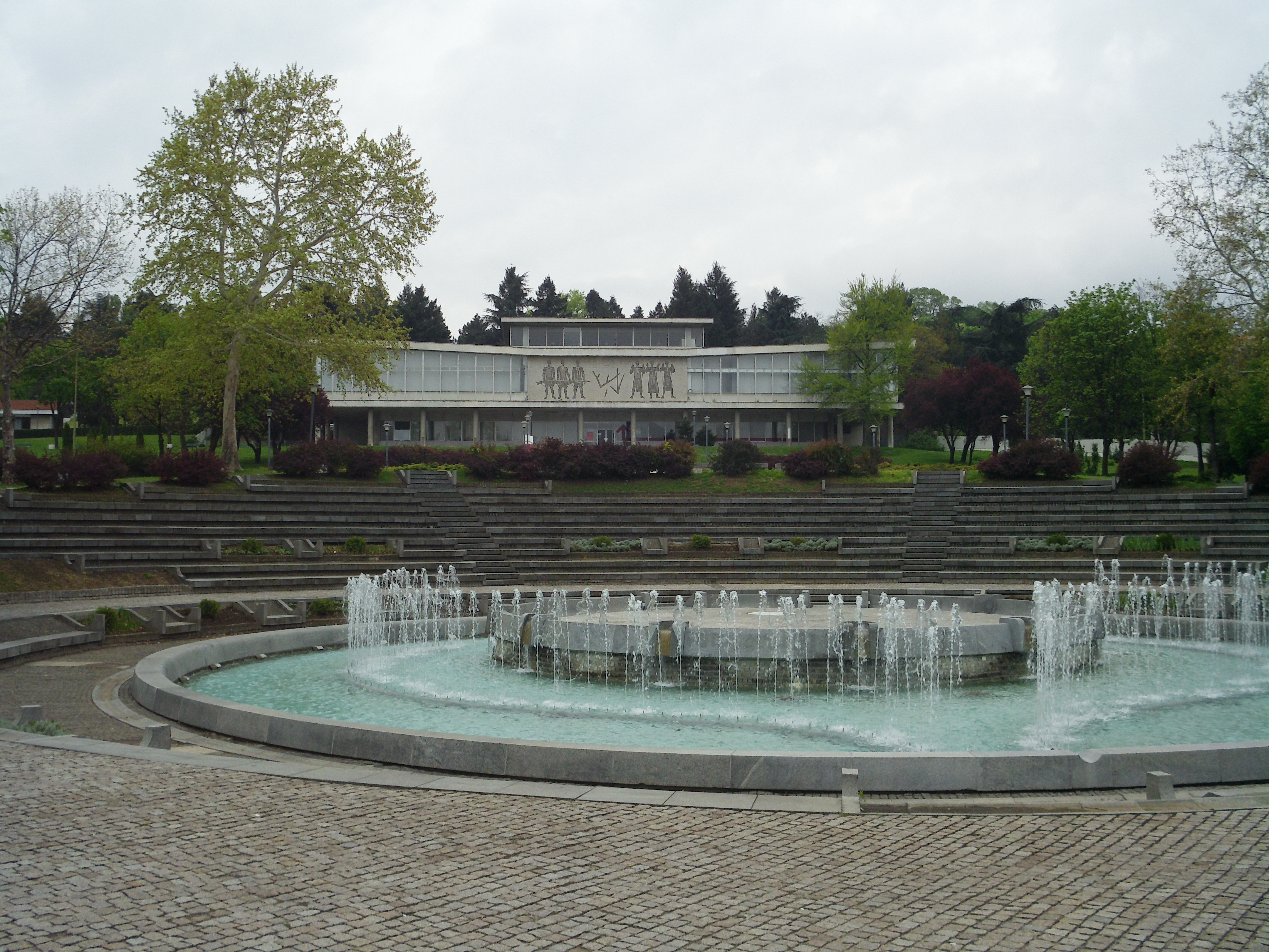 Fountain in front of Museum of Yugoslav History in Belgrade, Serbia.